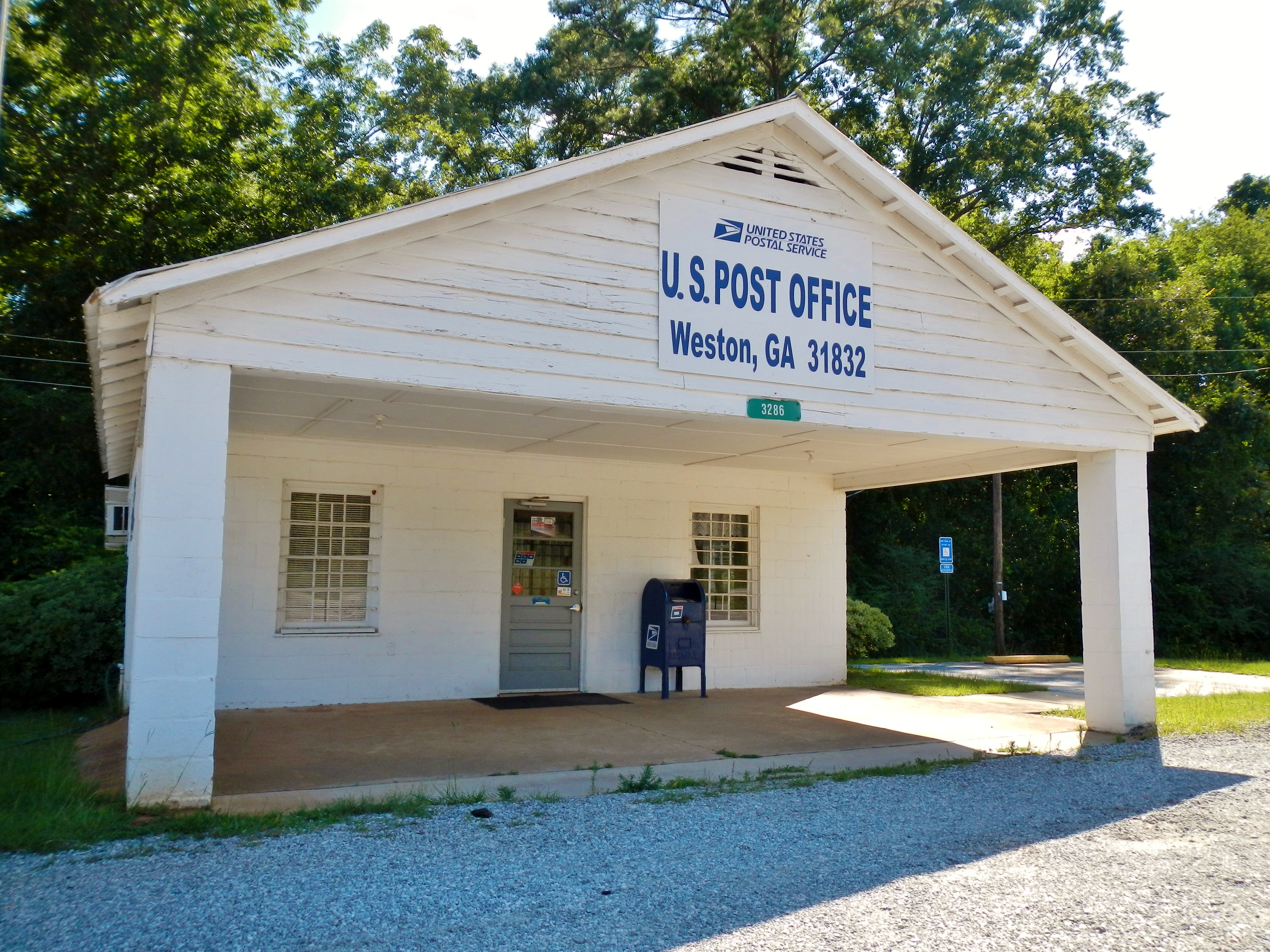 This is a photograph of the Weston Post Office in Weston, GA.